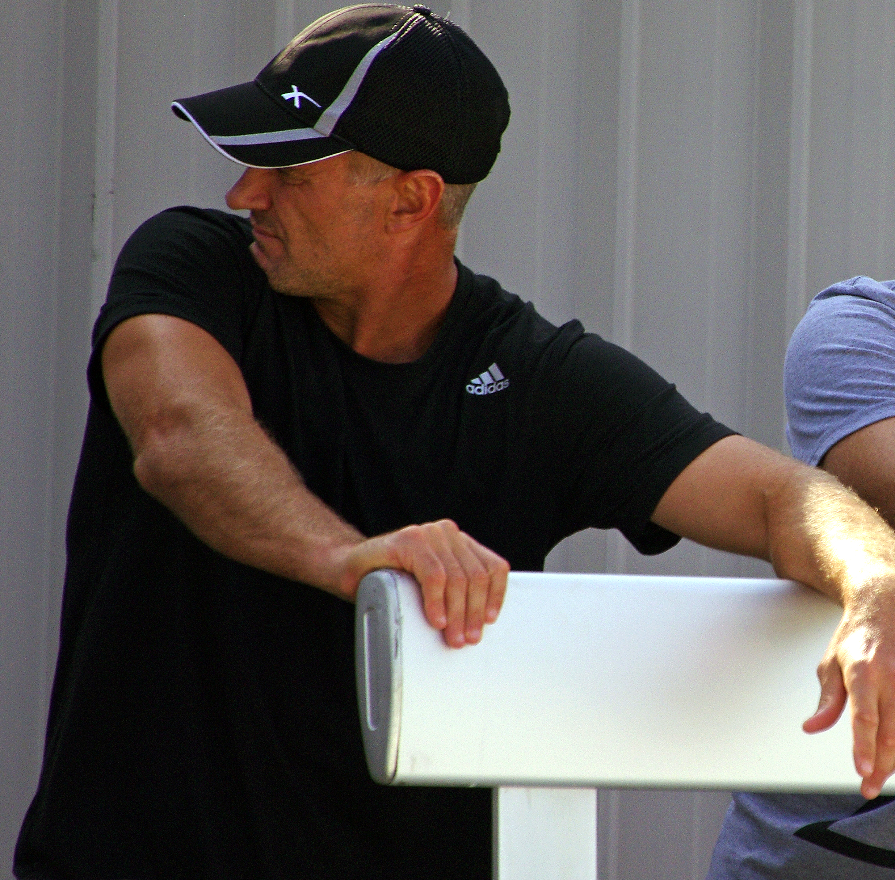 Brad Arthur